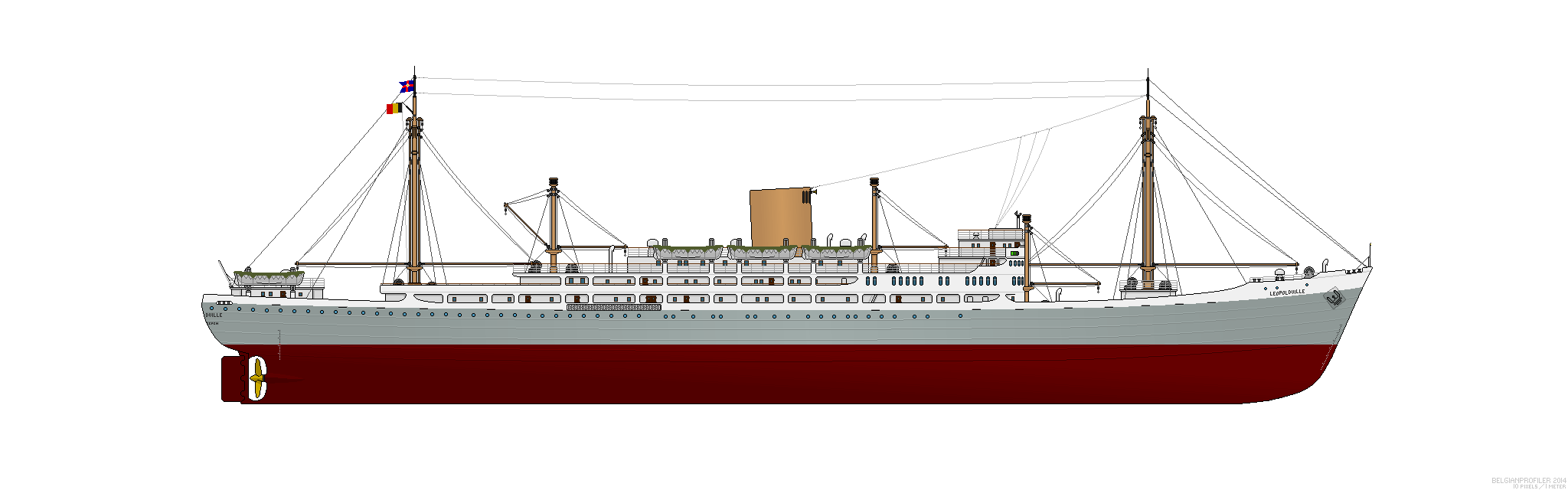 CMB MV Leopoldville 1948-1967